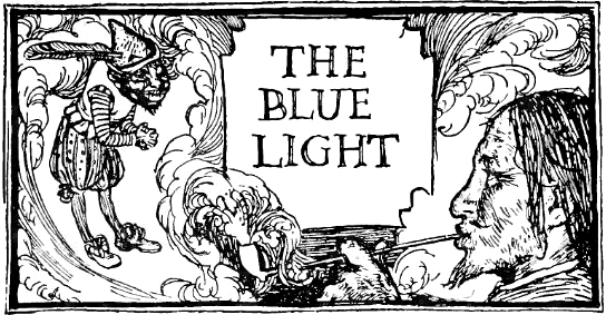 Illustration from a book of fairy tales